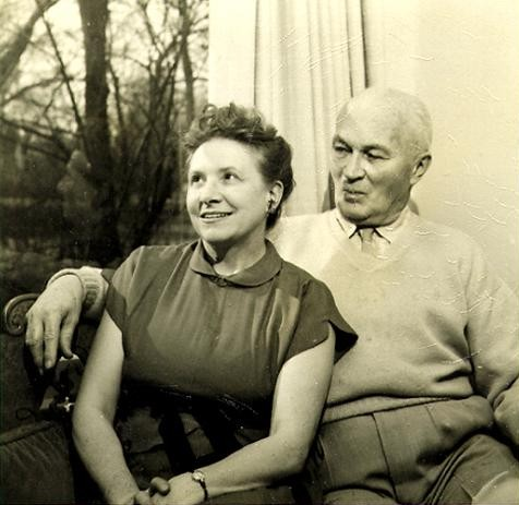 Dr. Doris Allen, founder of CISV, and her husband Eratus "Rusty" Allen, picture taken in the 1960s.